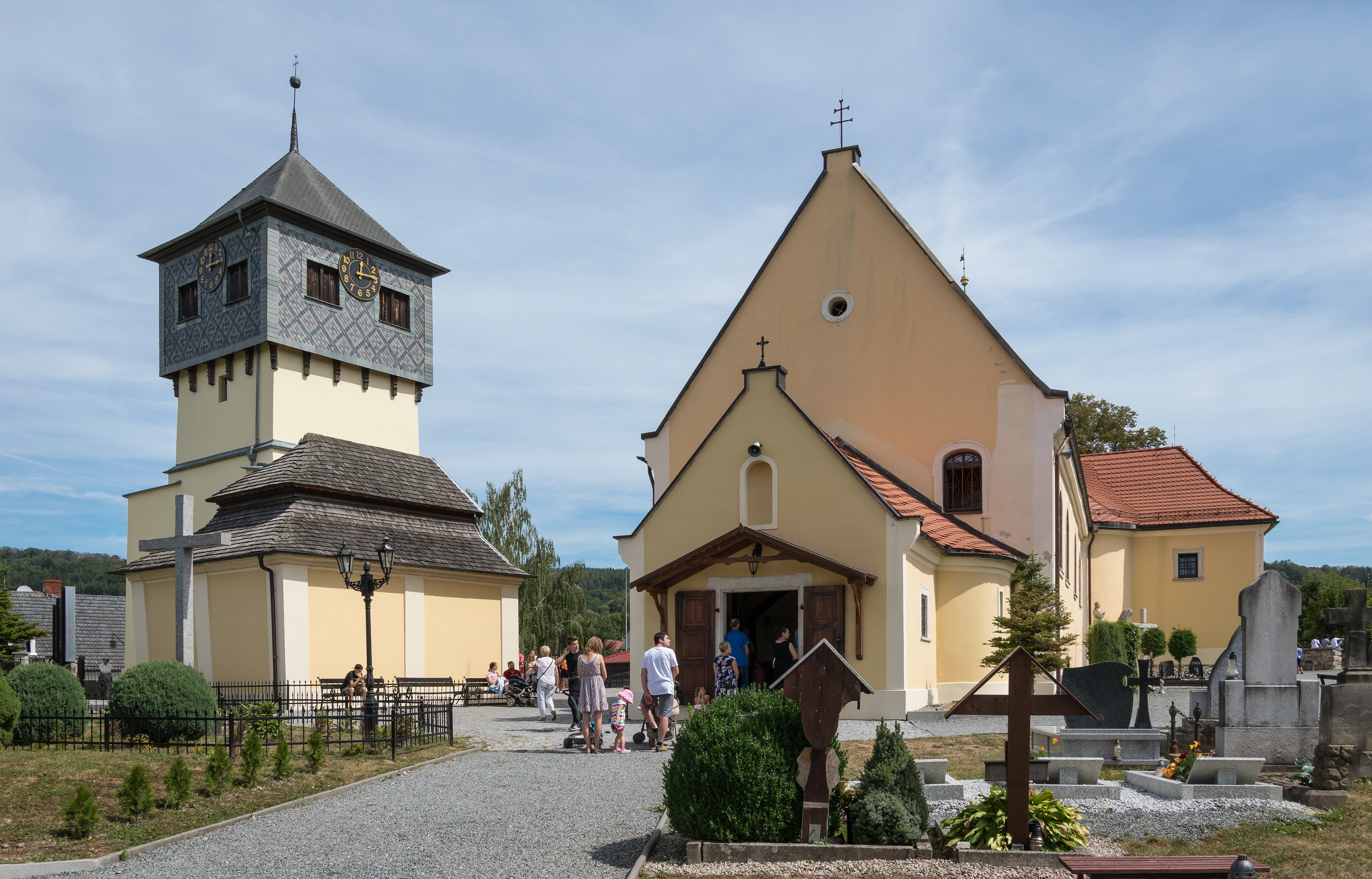 Church of Saint Bartholomew in Czermna Wikidata has entry Q24578616 with data related to this item.